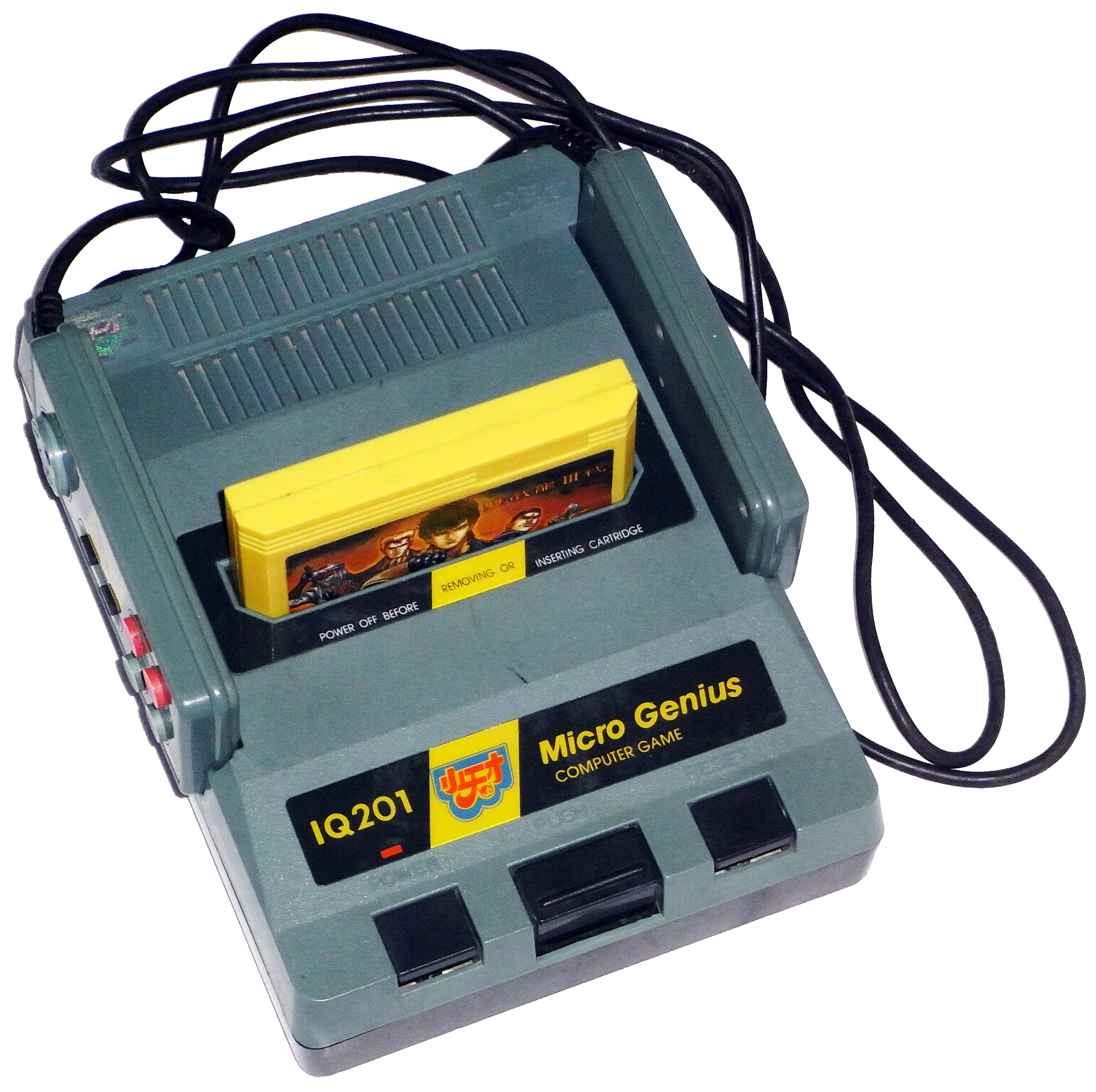 A Micro Genius IQ-201 Famicom (NES) clone with Double Dragon 3 pirate cartridge inserted.